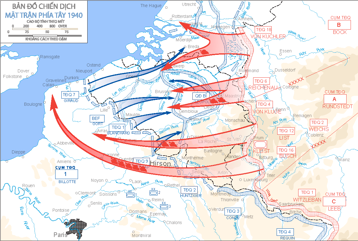 Evolution of Fall Gelb (Fall Gelb No3 is omitted) - With ref. of File:1939-1940-battle of france-plan-evolution.jpg